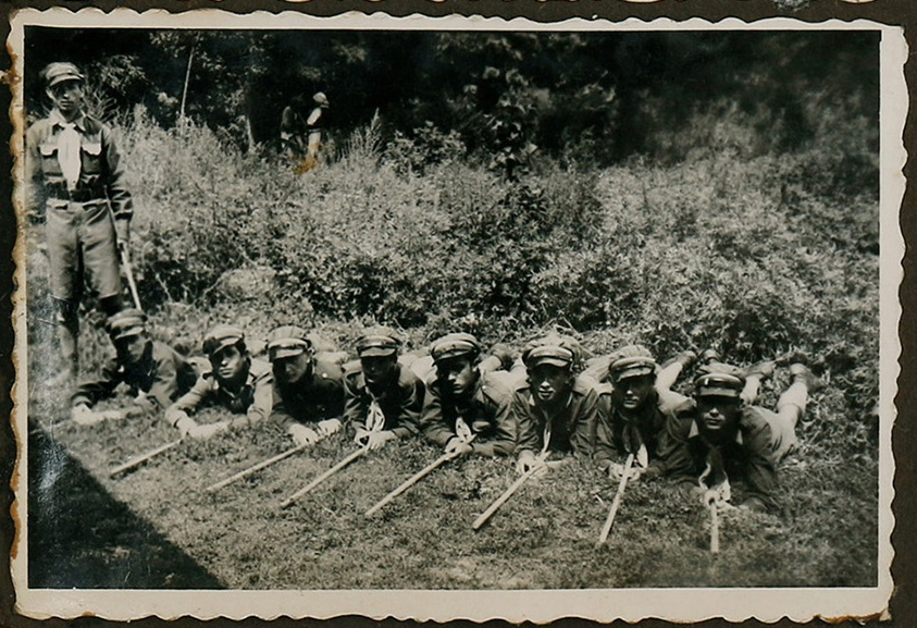 Members of Beitar movement training combat at a summer camp in the Polish resort town Zakopane.